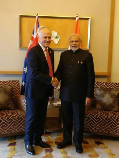 Delighted to meet PM Malcolm Turnbull. We discussed aspects of India-Australia relations & how to strengthen them